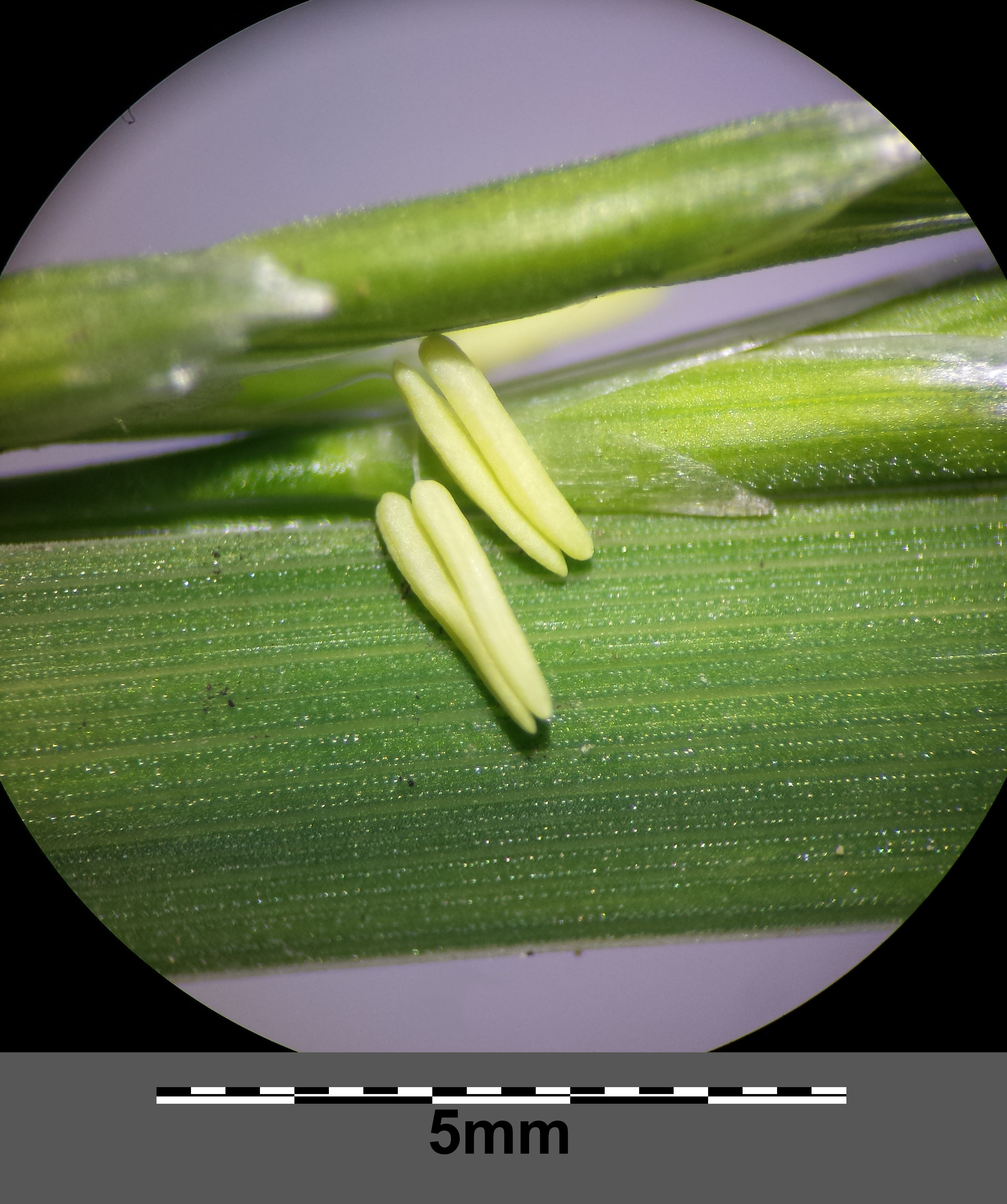 Anthers Taxonym: Glyceria fluitans ss Fischer et al. EfÖLS 2008 ISBN 978-3-85474-187-9 Location: next to pond near Goldenes Bründl, Rohrwald, district Korneuburg, Lower Austria - ca. 225 m a.s.l. Habitat: pond